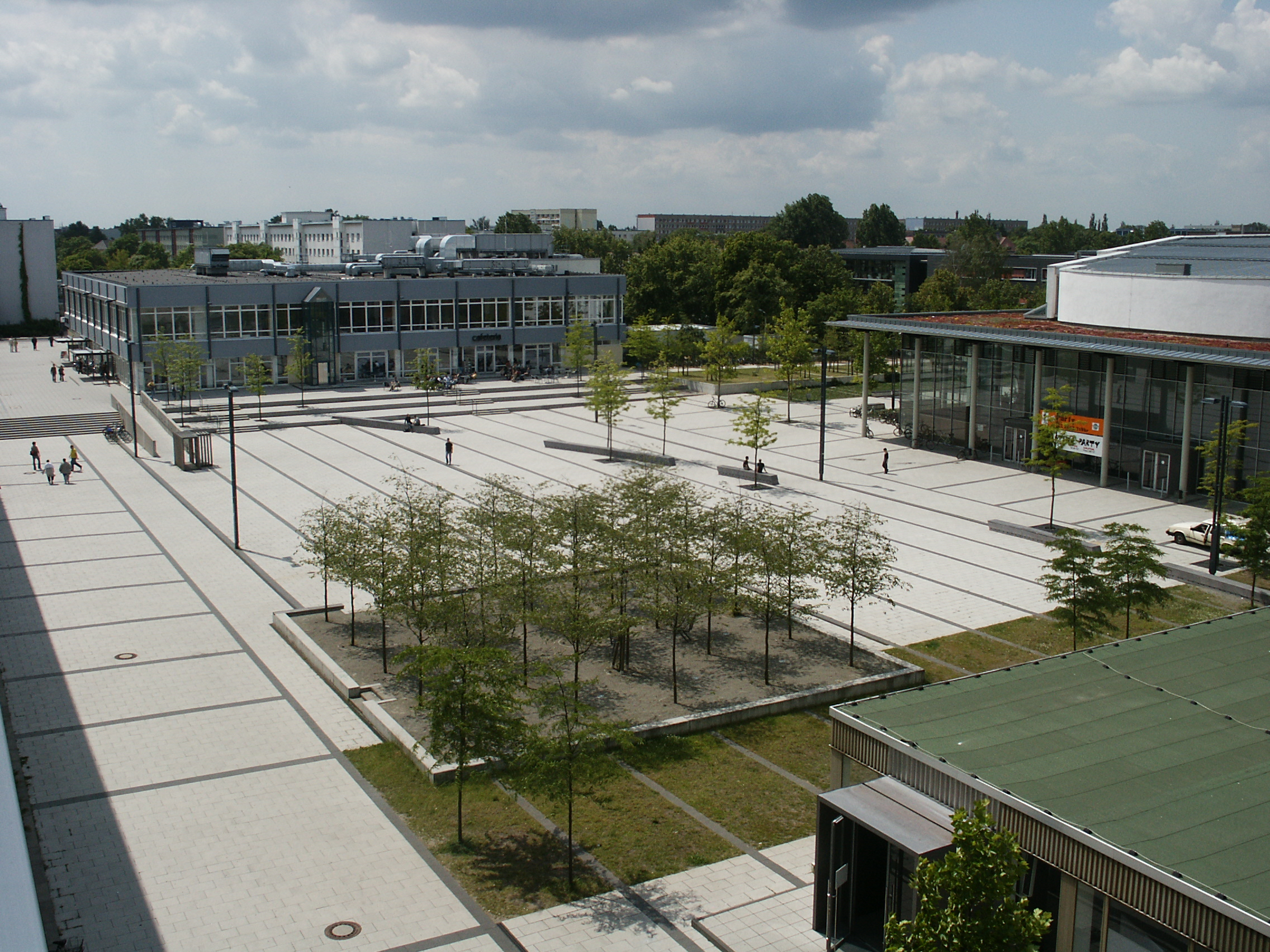 View from the main building of the University to the central square on the campus.